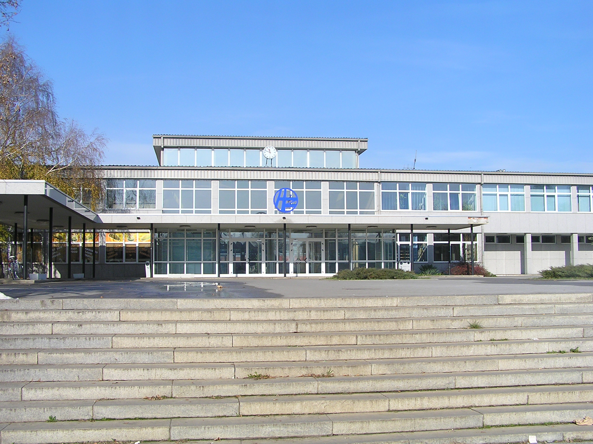 Railway station of Vinkovci - exterior view from the steps